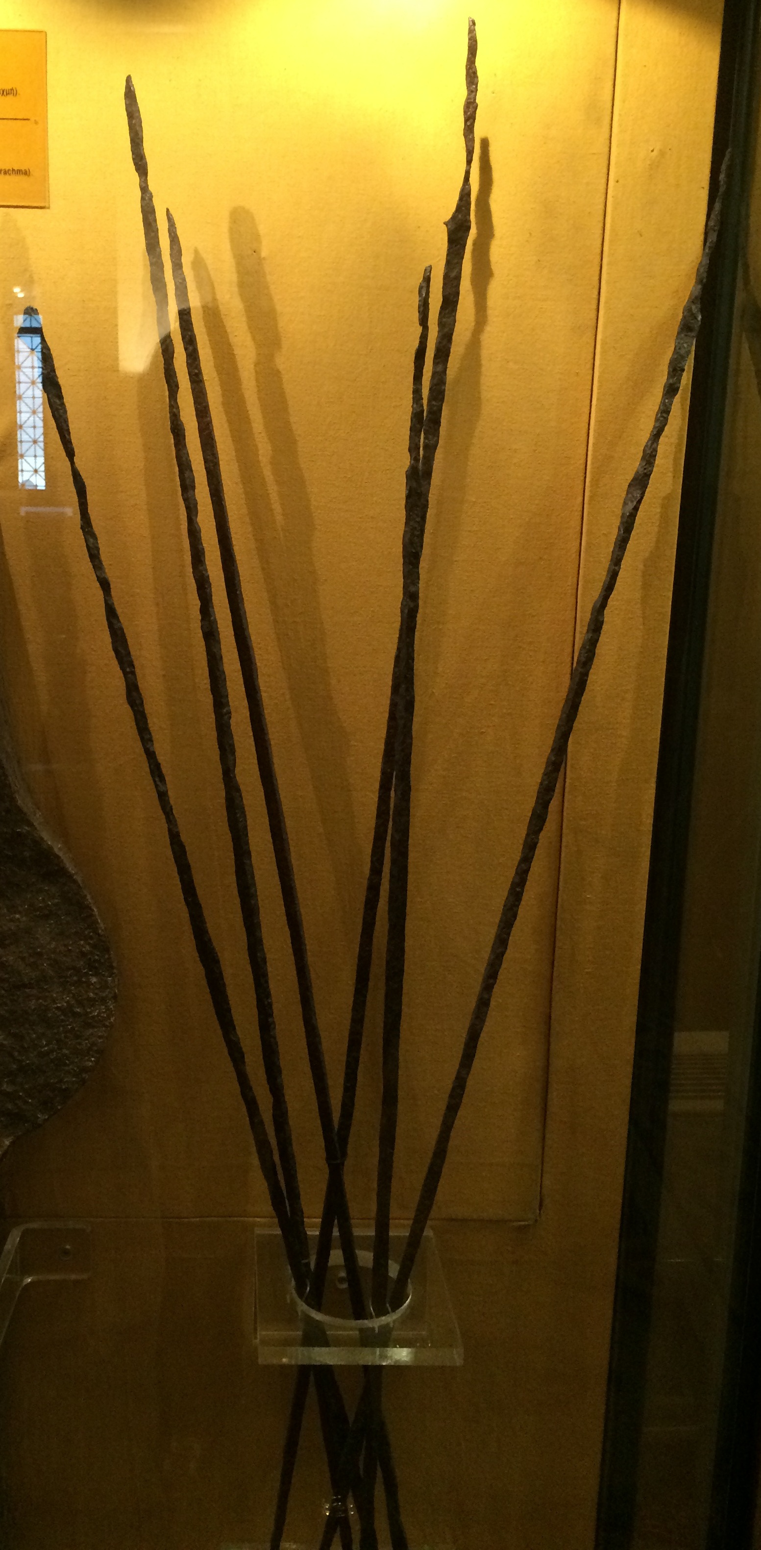 iron oboloi in the form of spits, now displayed at the Numismatic Museum of Athens Numismatic Museum of Athens Native nameΝομισματικό Μουσείο ΑθηνώνLocationPanepistimiou Street, AthensCoordinates37° 58′ 40.08″ N, 23° 44′ 07.44″ E Established1893Web pageΝομισματικό Μουσείο ΑθηνώνAuthority control : Q658339 VIAF: 312739262 ISNI: 0000 0001 2256 5625 ULAN: 500306503 LCCN: n86033983 NLA: 35103356 WorldCat institution QS:P195,Q658339